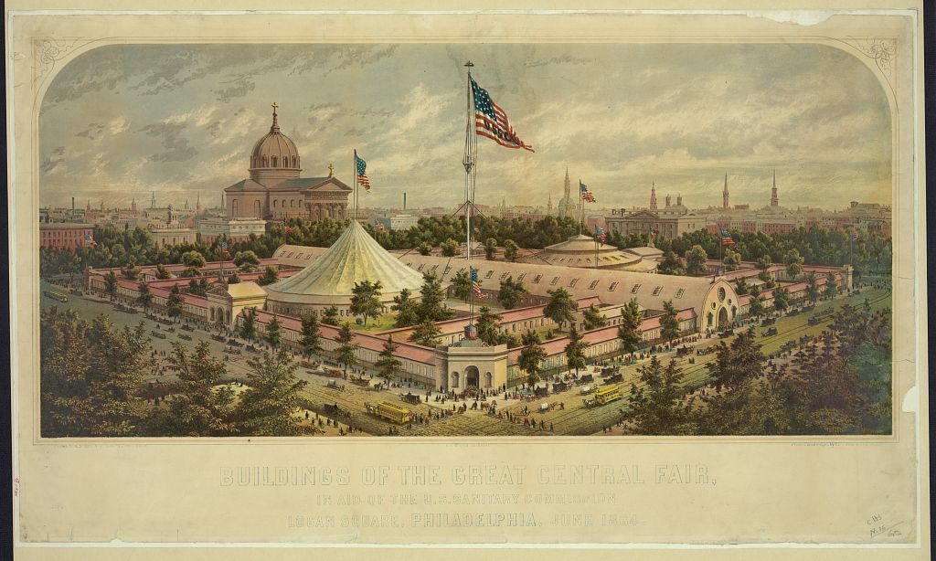 "Buildings of the Great Central Fair, in Aid of the U.S. Sanitary Commission, Logan Square, Philadelphia, June 1864." Engraving. The intersection in the foreground is 20th & Vine Streets. The large domed building (left) is the Cathedral Basilica of Saints Peter and Paul. The pedimented building (right) on Race Street between 18th and 19th Streets is Wills Eye Hospital (now the site of the Four Seasons Hotel). Logan Square was converted into Logan Circle in the 1920s.